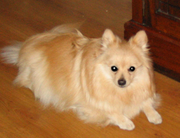 A picture of my sister's lovely cream German Spitz Klein, München. What a cütie!